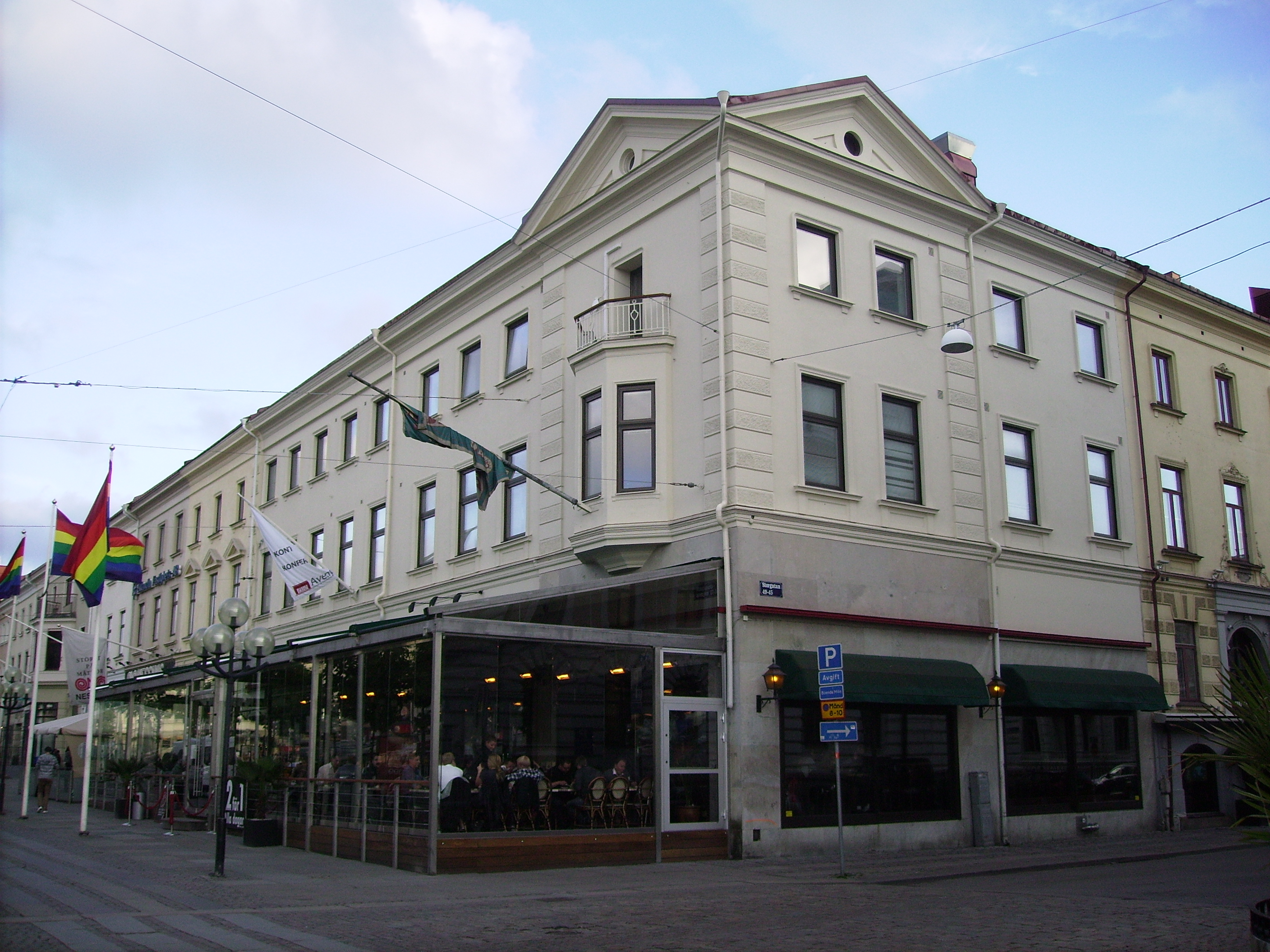 Picture of Kungsportsavenyn 3 in Göteborg